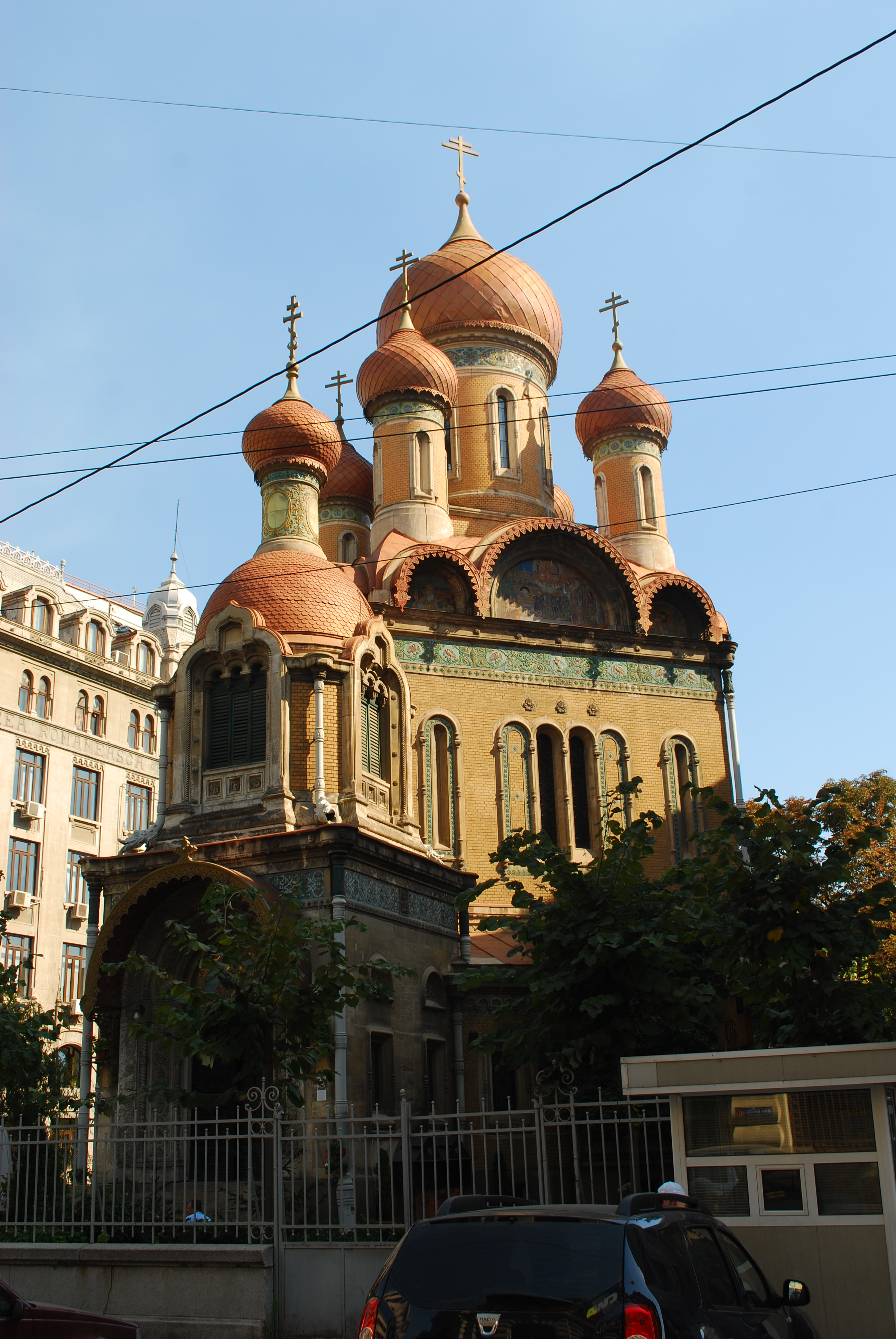 Russian church (St. Nicholas) in Bucharest, RomaniaRomână: Biserica Sf. Nicolae (rusă) din Bucureşti, România